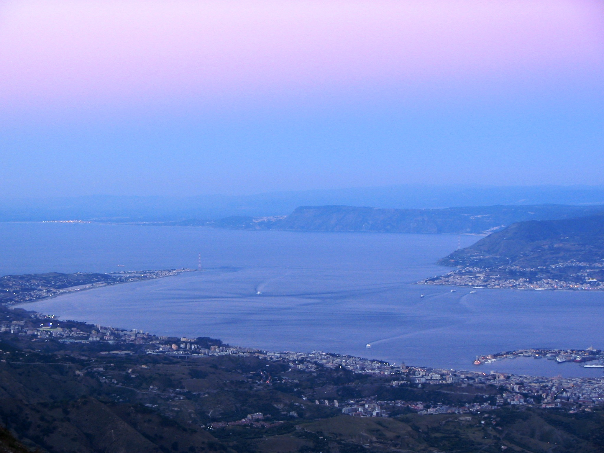 Sunset in Messina Straits from "Dinnammare" The Earth's shadow is visible as a dark band over the horizon; the pink band above it is known as the Belt of Venus. [1]